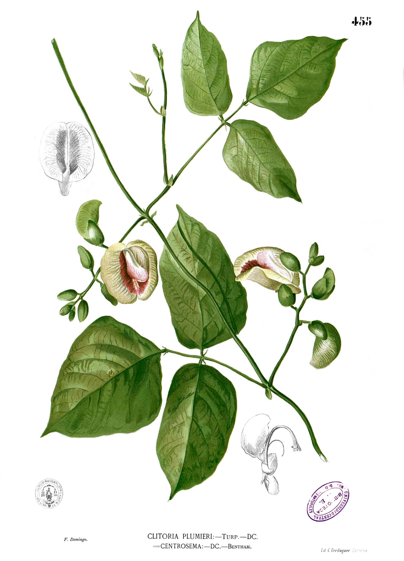 Plate from book